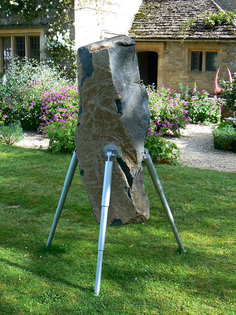 'on form 08', Asthall Manor, Asthall At the moment there is an exhibition of sculpture being held at the Manor. Permission was freely given for photography of the exhibits as long as the artists were named. This work is by David Worthington and is called 'Great Tripod'. £9,000.00.